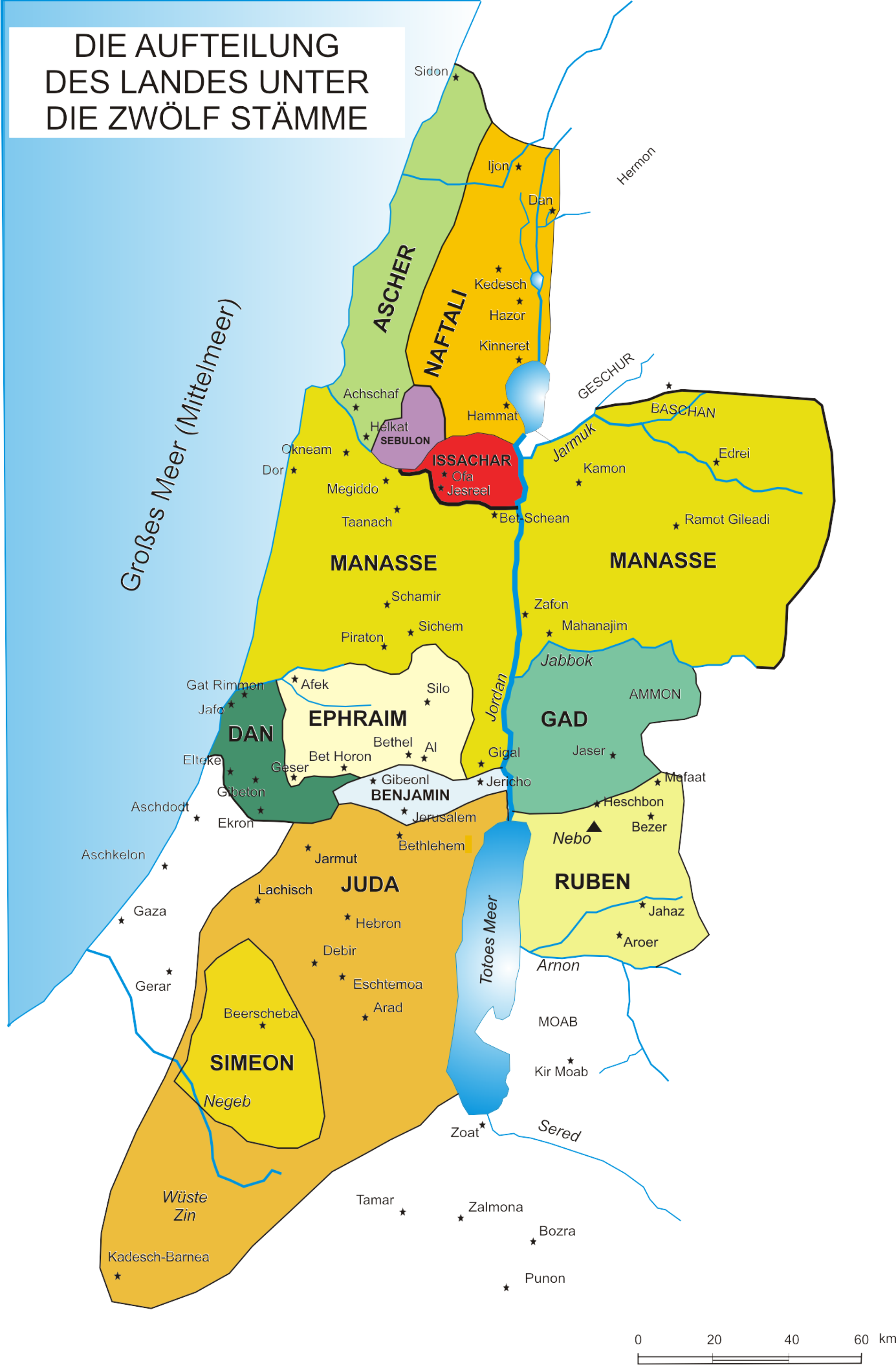 Territories of the 12 tribes of Israel, before the move of Dan to the north.